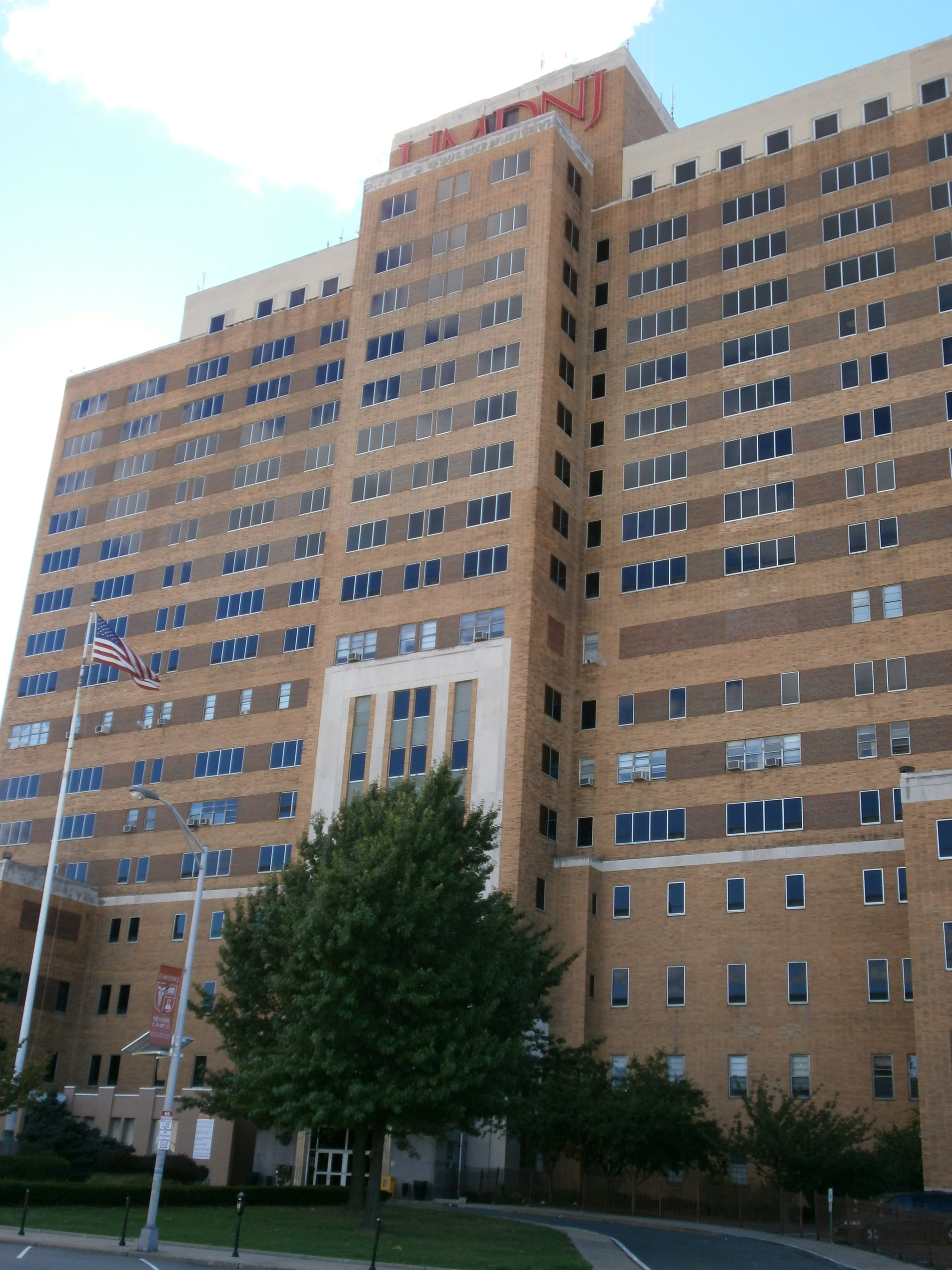 formerly known as Martland Hospital, Martland Medical Center, Newark City Hospital, The Harrison S. Martland Center